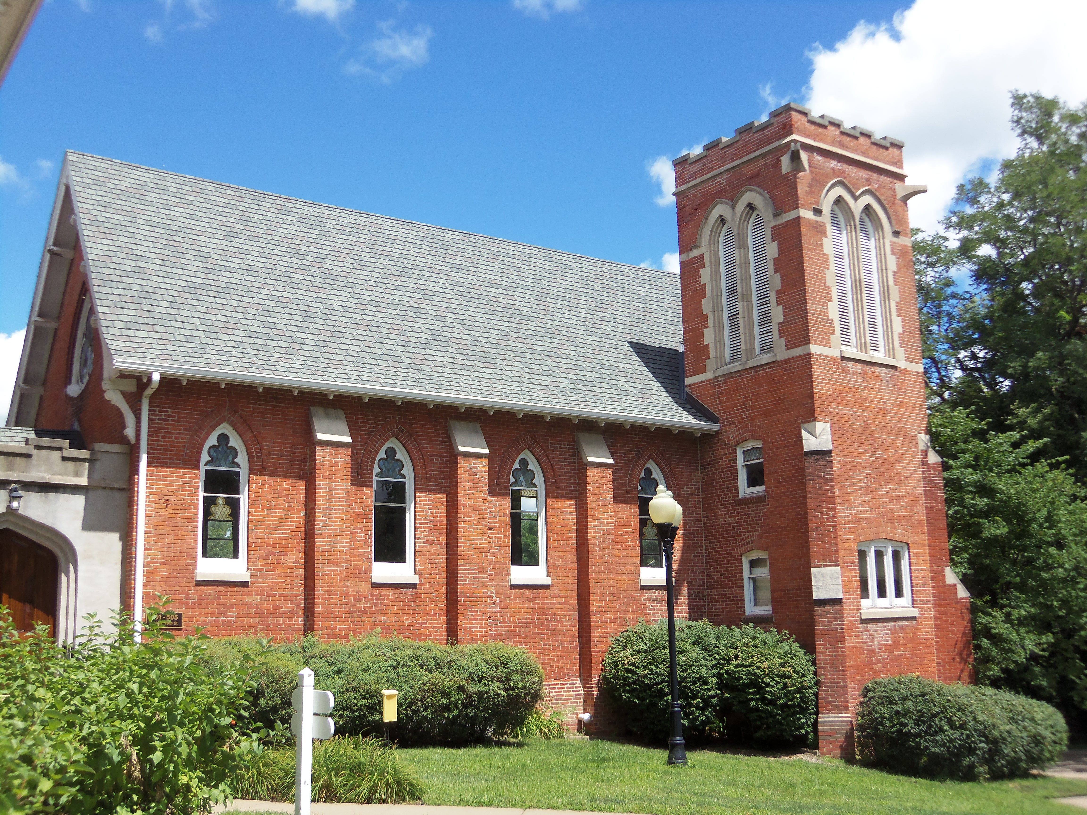 St. Mary's Chapel at the former St. Katharine's School in Davenport, Iowa.